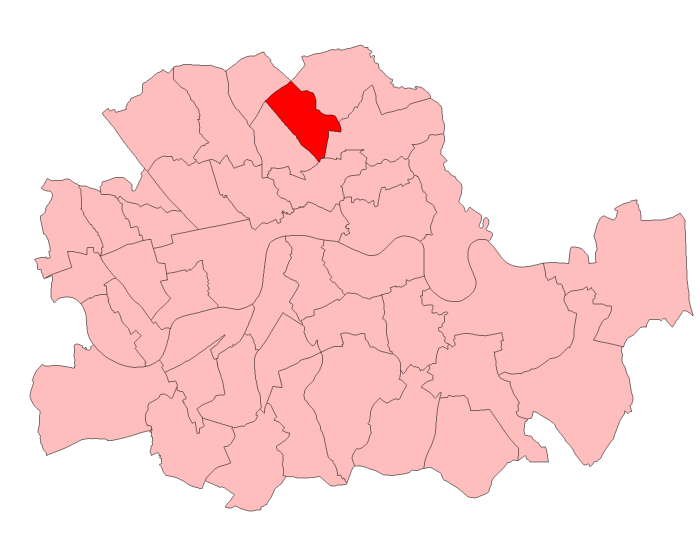 A map of Islington East constituency within the London County Council area, as it existed from 1950 to 1974.